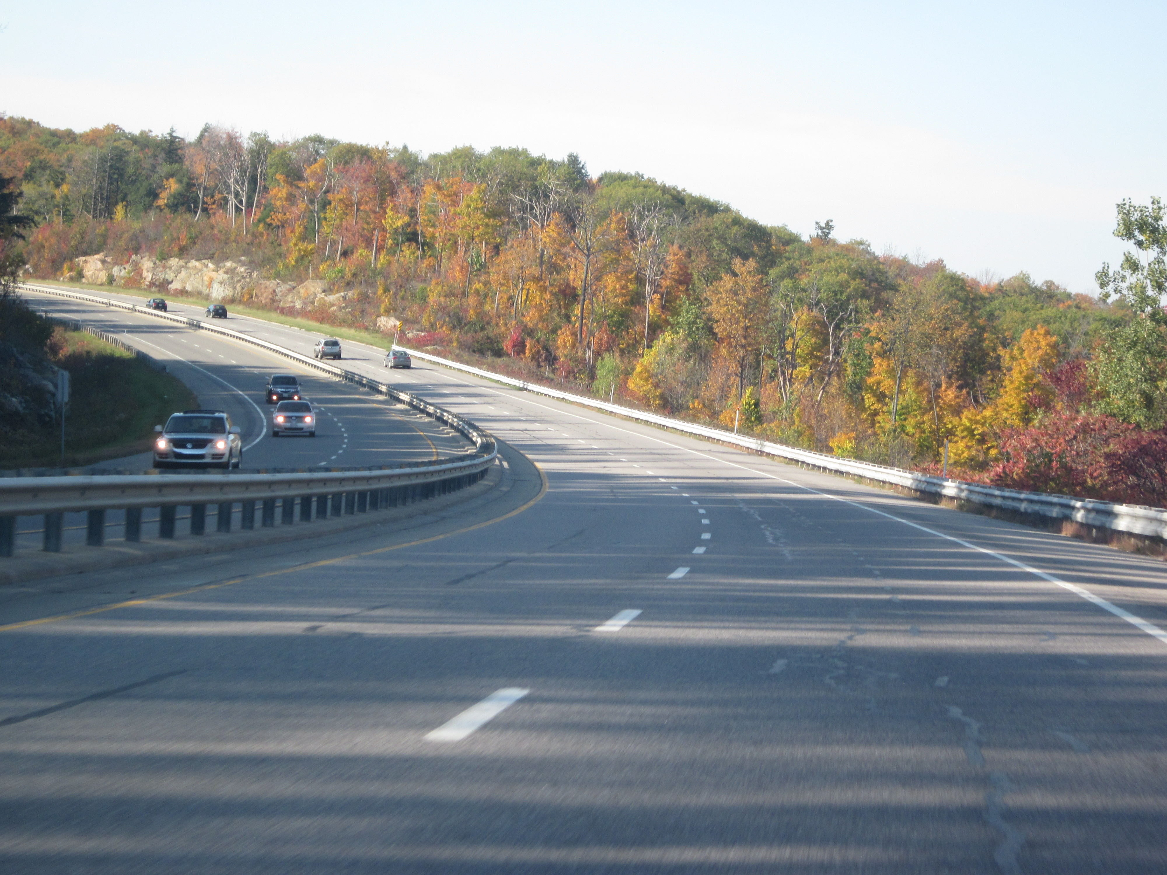 Autoroute 5 North near km 20 in Chelsea.